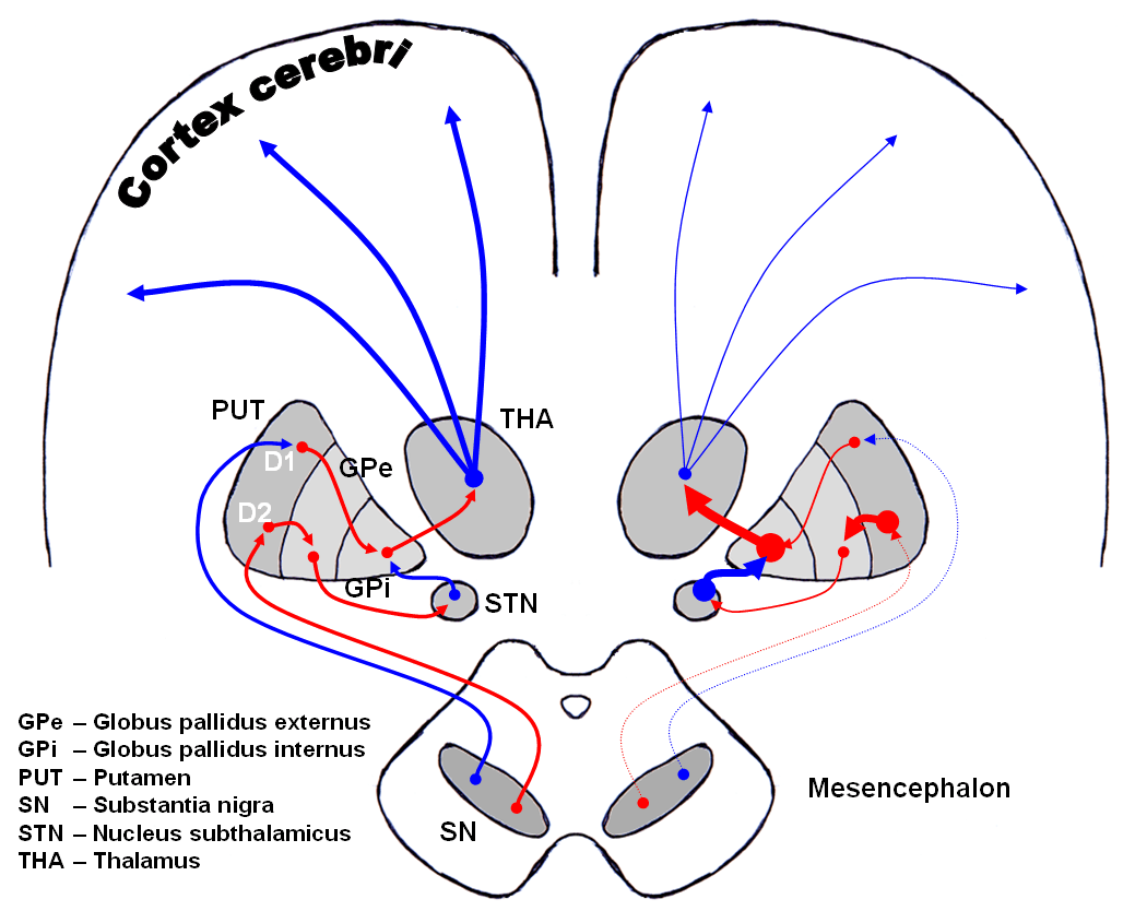 The image shows dopaminergic pathways of the human brain in normal condition (left) and Parkinsons Disease (right). Red Arrows indicate suppression of the target, blue arrows indicate stimulation of target structure. Das Bild zeigt die dopaminergen Projektionen beim gesunden Menschen (links) und beim Morbus Parkinson (rechts). Rote Pfeile stehen für Hemmung und blaue für Stimulation der Zielstruktur. Autor: Medicus of Borg See also: Image:DA-loops in PD.jpg for a JPG version of the same image.